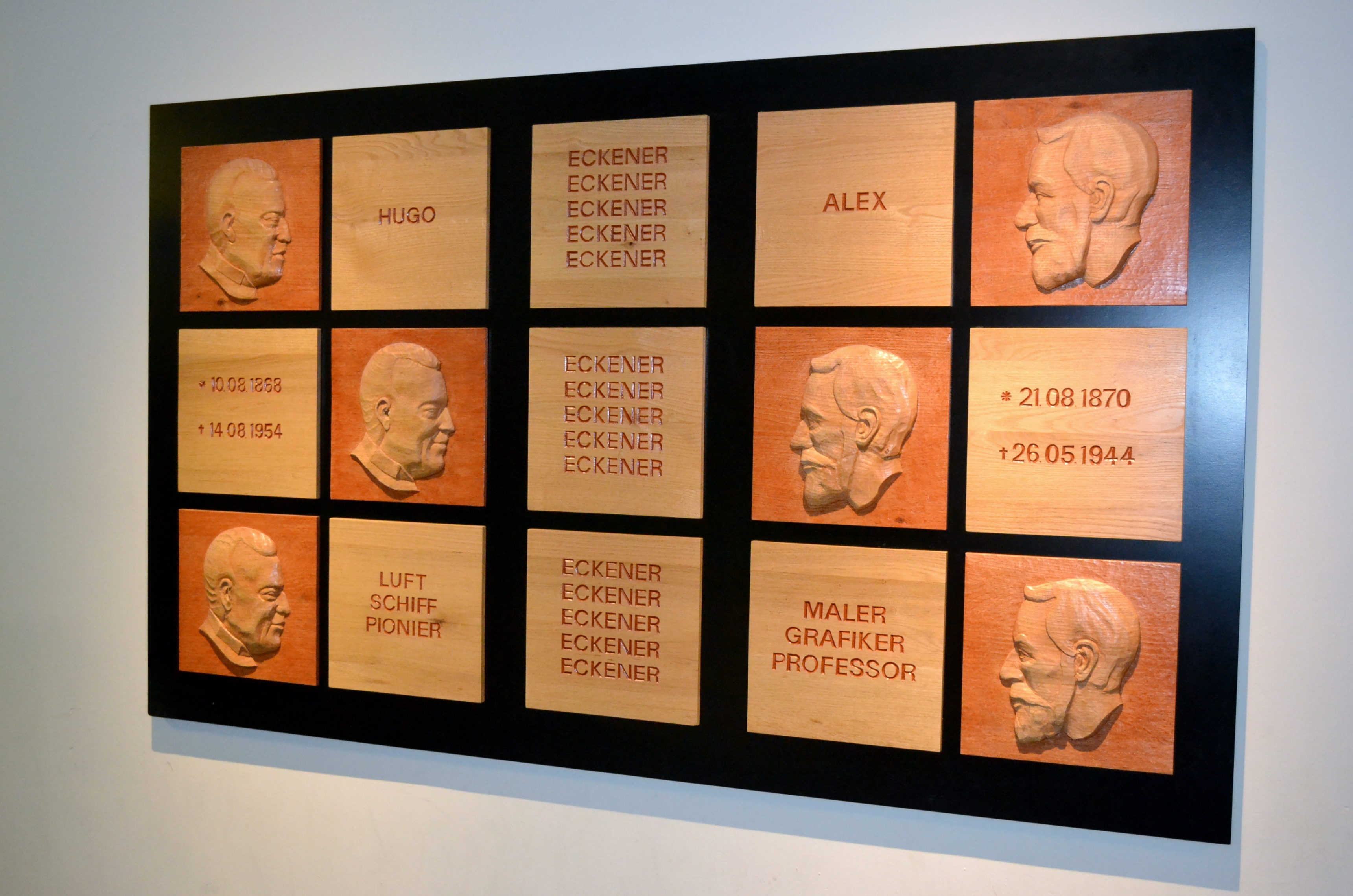 The Eckener Brothers